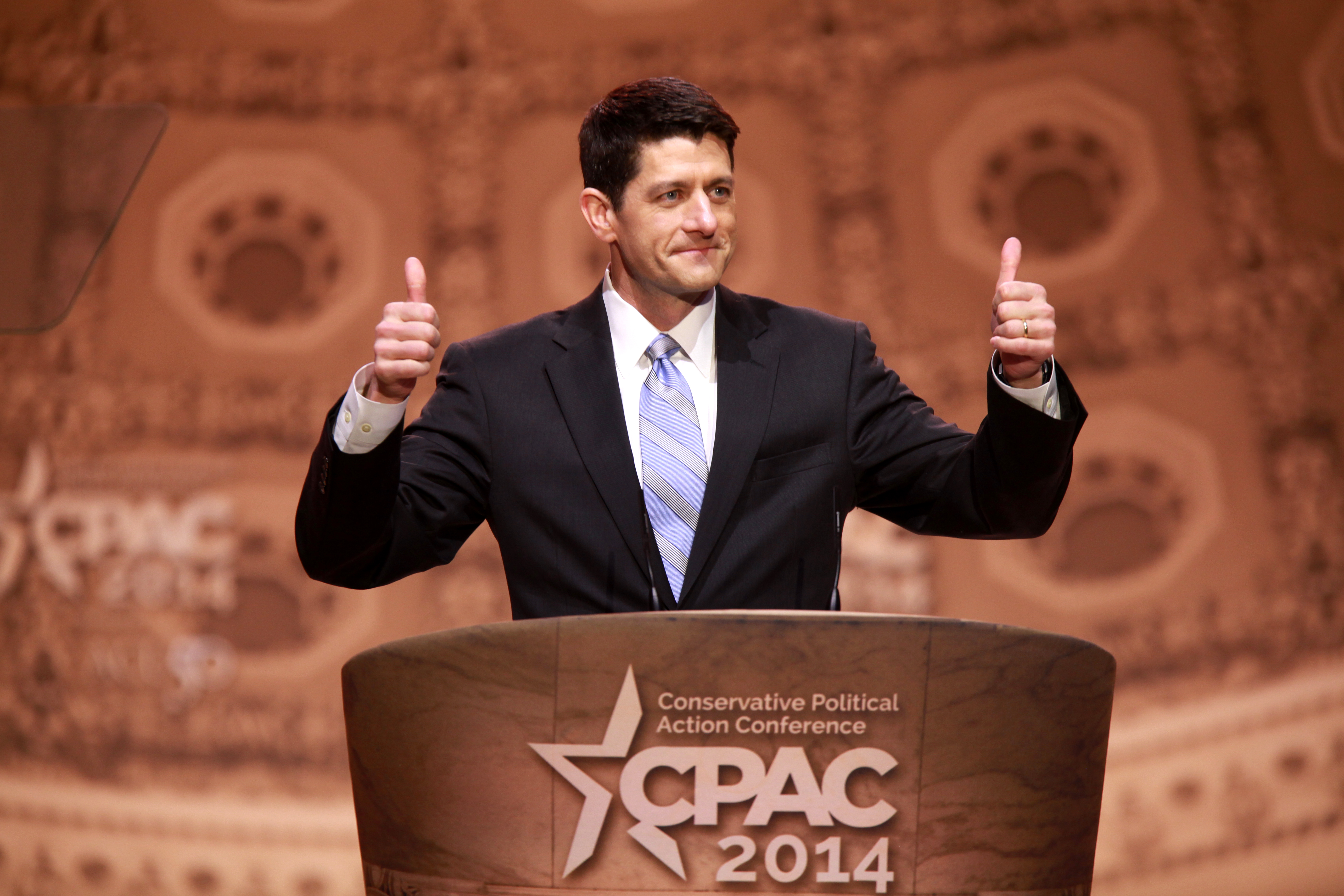 Paul Ryan speaking at CPAC 2014 in Washington, DC.